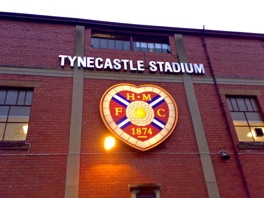 The facade of the main stand at Tynecastle. Facade of Heart of Midlothian F.C.'s Tynecastle Stadium.